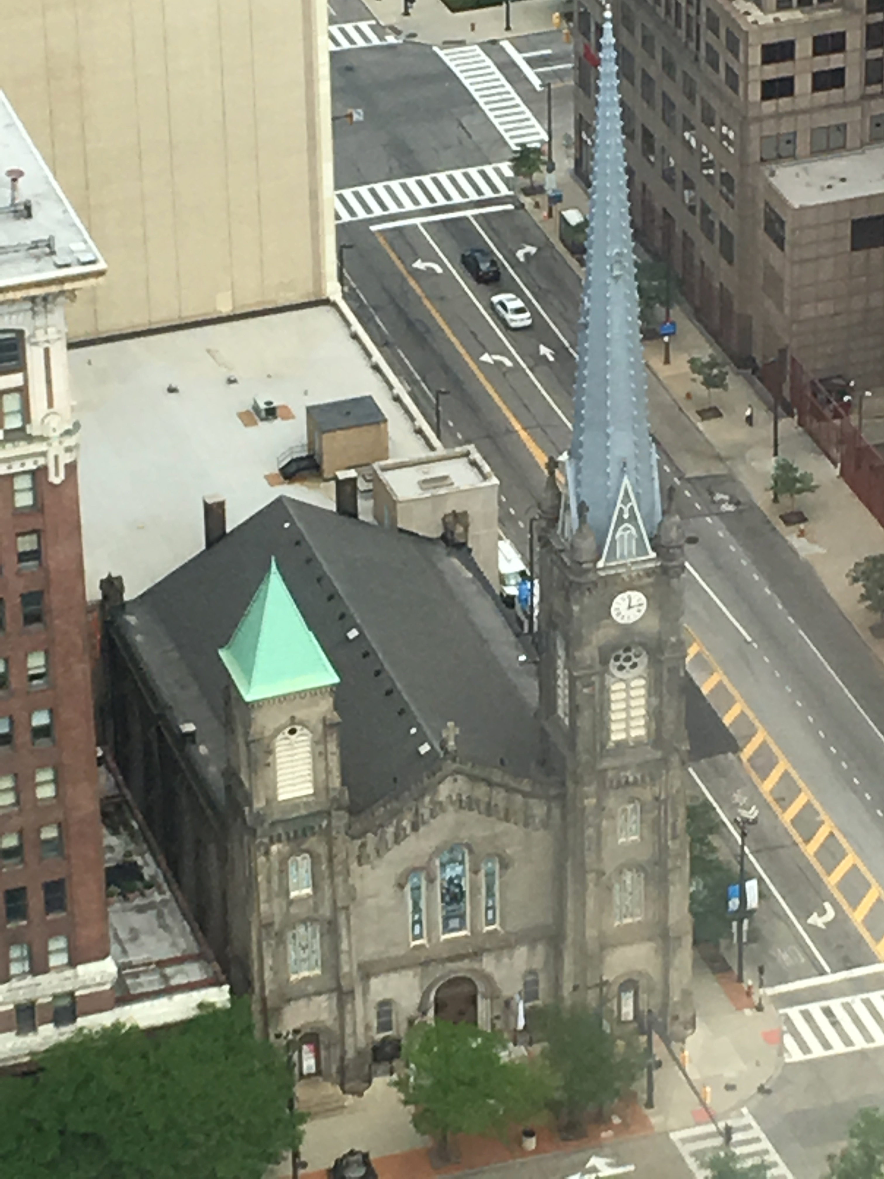 Old Stone Church